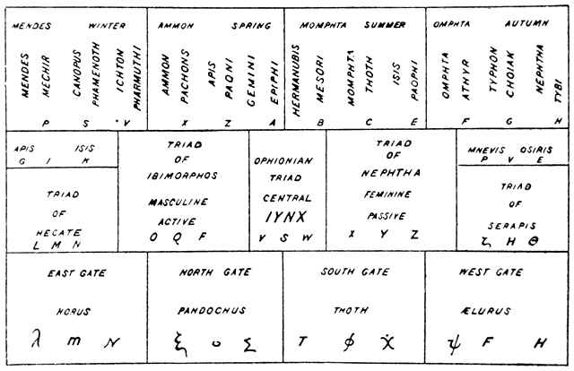 Westcott's key to the Bembine Table, first published in William Wynn Westcott, The Isiac Tablet.